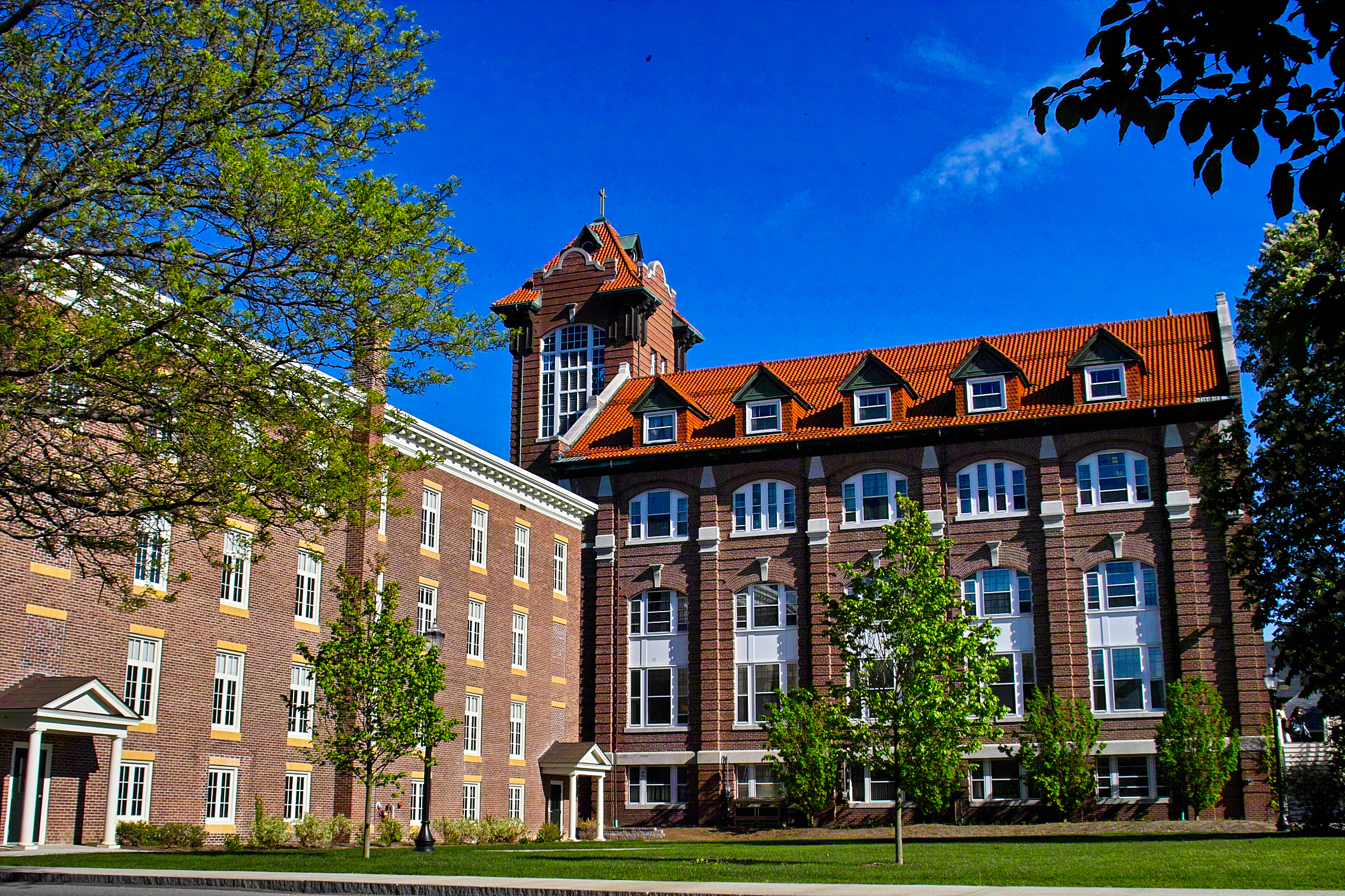 "The Streets", the North side of Alumni Hall and Joseph Hall